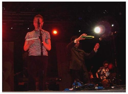 Belle and Sebastian Live! in Terral Festival (Málaga) July 19th 2006 Photo: Paul Van Duik